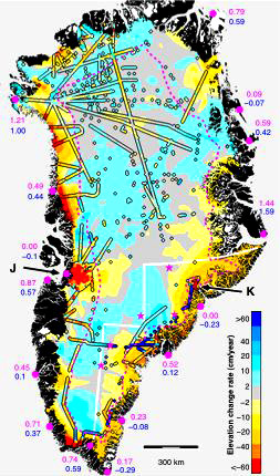 Greenland Ice Changes 1997 – 2003: The following image shows rates of elevation change in Greenland measured along aircraft flight lines during 1997-2003, superimposed on a map of measurements from 1993-1999. Warm colors indicate elevation loss and cool colors represent elevation gain. Dark areas of red and blue indicate the highest rates of change, -/+60 cm/year respectively.